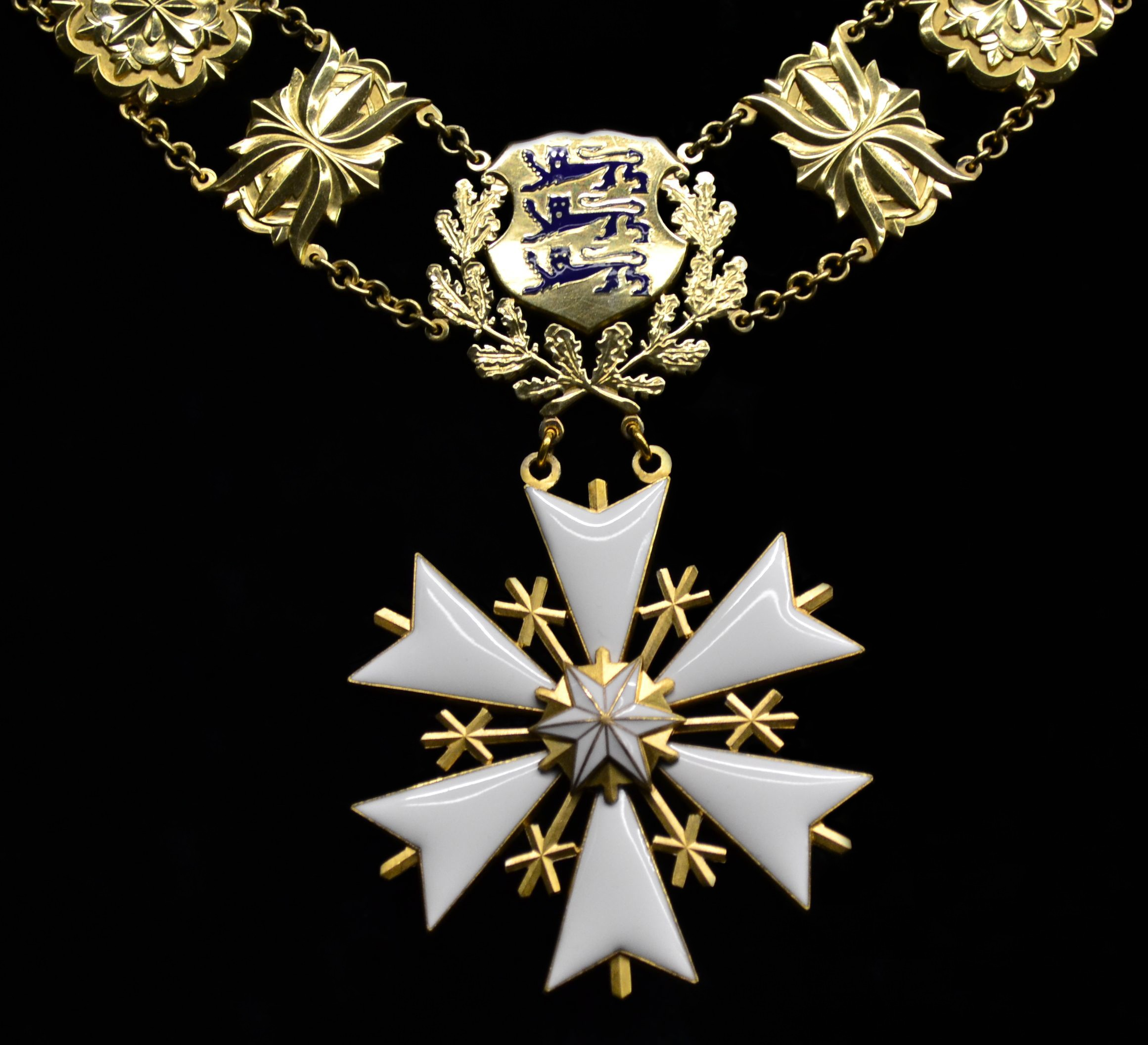 Estonia. Order of the White Star, insignias of the Collar class. The exhibition of the Estonian State Decorations at the National Library of Estonia in Tallinn.